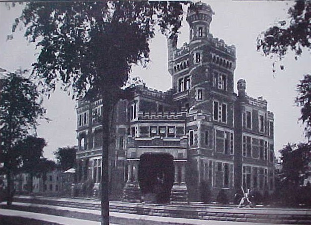 Palmer Castle, Residence of Potter Palmer at Lake Shore Drive, Chicago